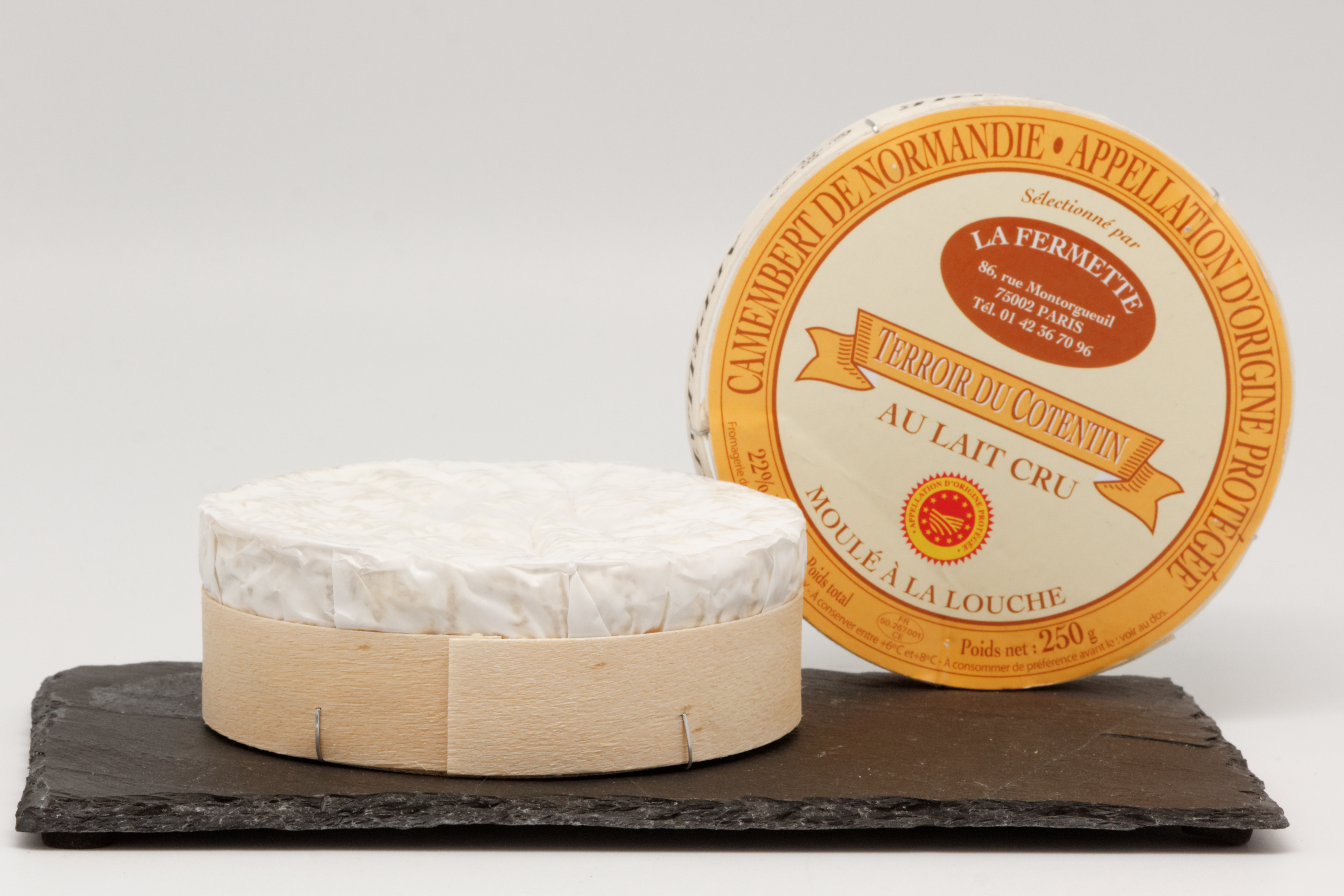 Camembert de Normandie (Protected Designation of Origin)